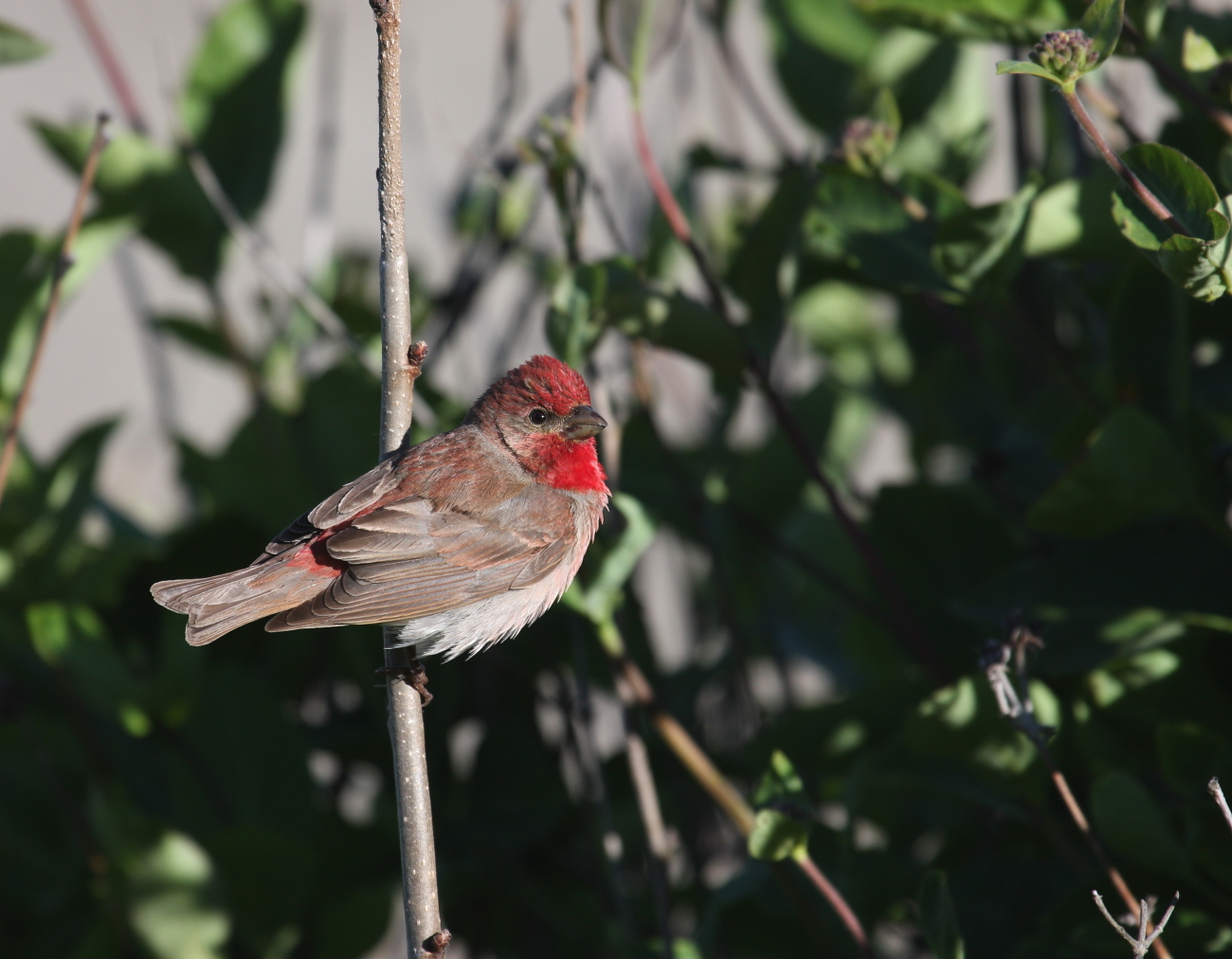 Common Rosefinch male from Lista, Norway.